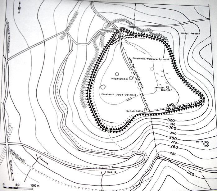 Plan of Herlingsburg in Lippe/Germany